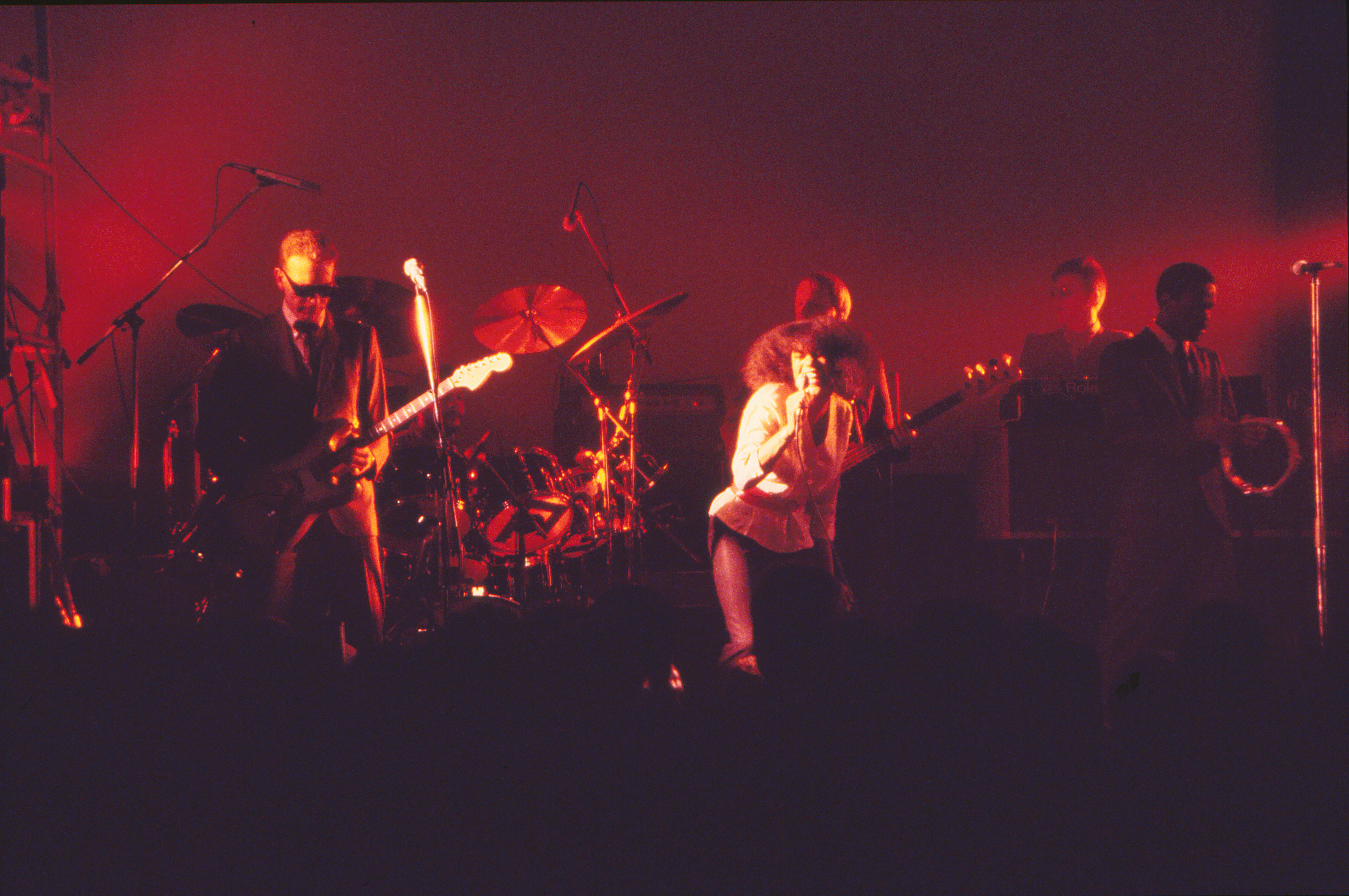 The Selecter playing at Kant-Kino, Berlin, 1980